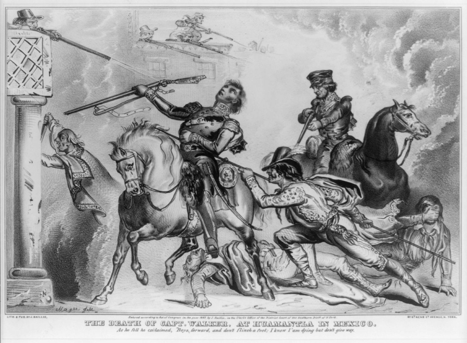 The death of Capt. Walker, at Huamantla in Mexico